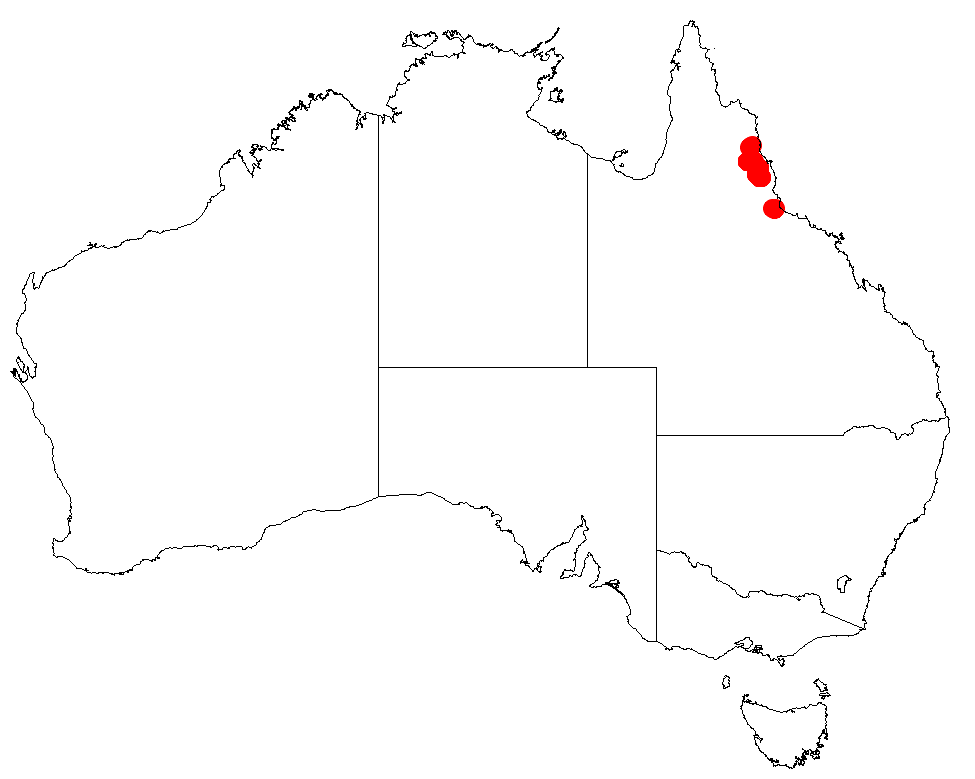 Homoranthus porteri Occurrence data from AVH downloaded 28 September 2018